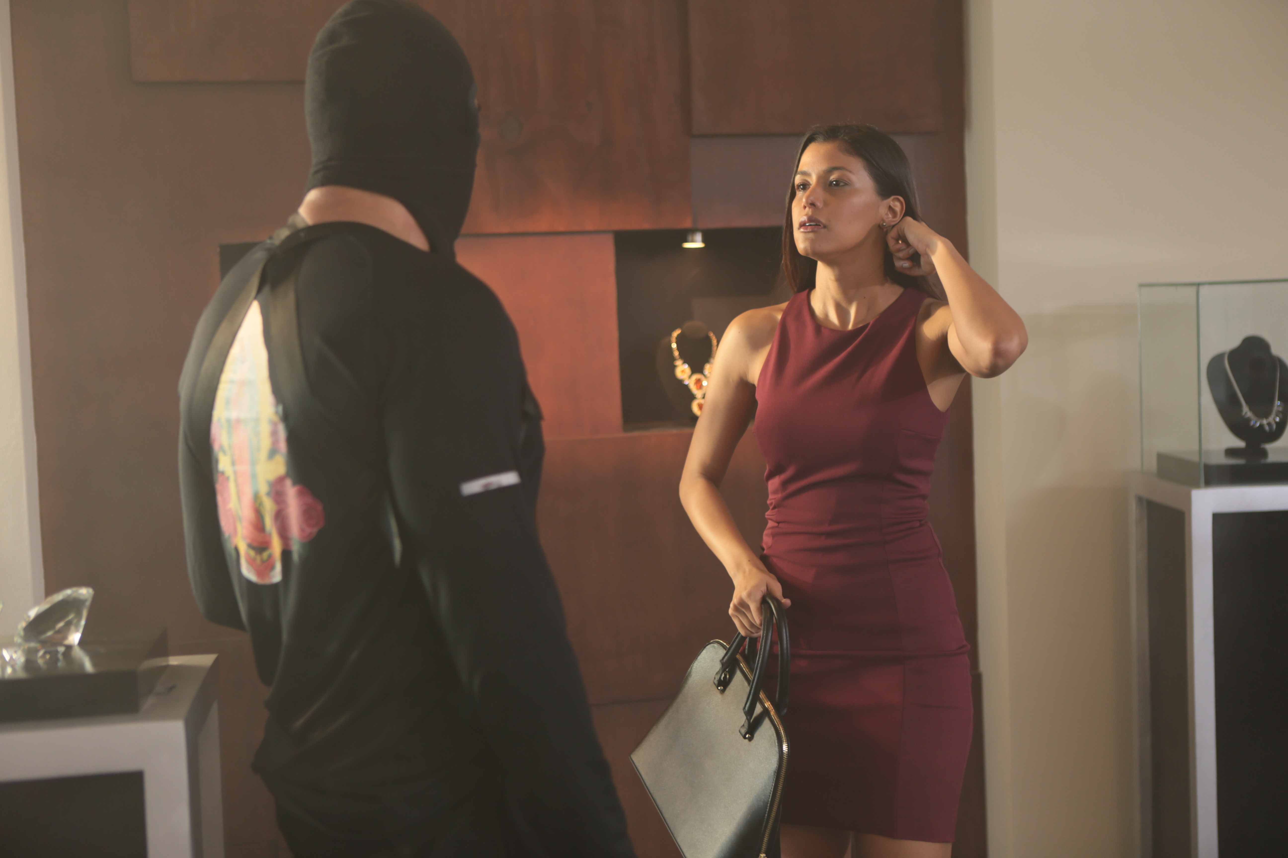 Escena de Ladrones Junto a Eduardo Yañez